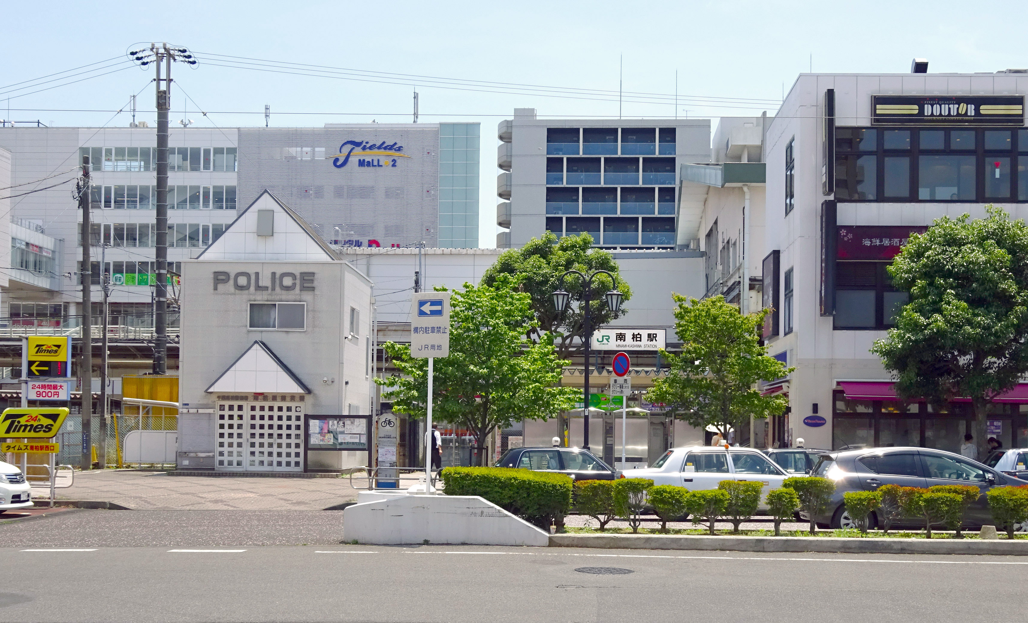 West entrance of Minami-Kashiwa Station